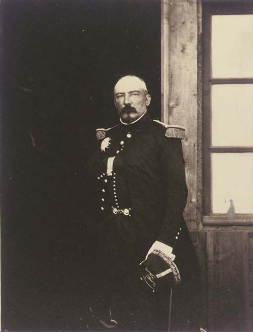 Pierre-François-Joseph Bosquet Ausschnitt aus einem Foto von Roger Fenton Datum: 1855 Ort: Krimkrieg Medium: 1 photographic print: salted paper; 19 x 16 cm Quelle: amerikanische Kongressbibliothek, part of: Roger Fenton Crimean War photograph collection Lizenz: Public Domain, No known restrictions on publication